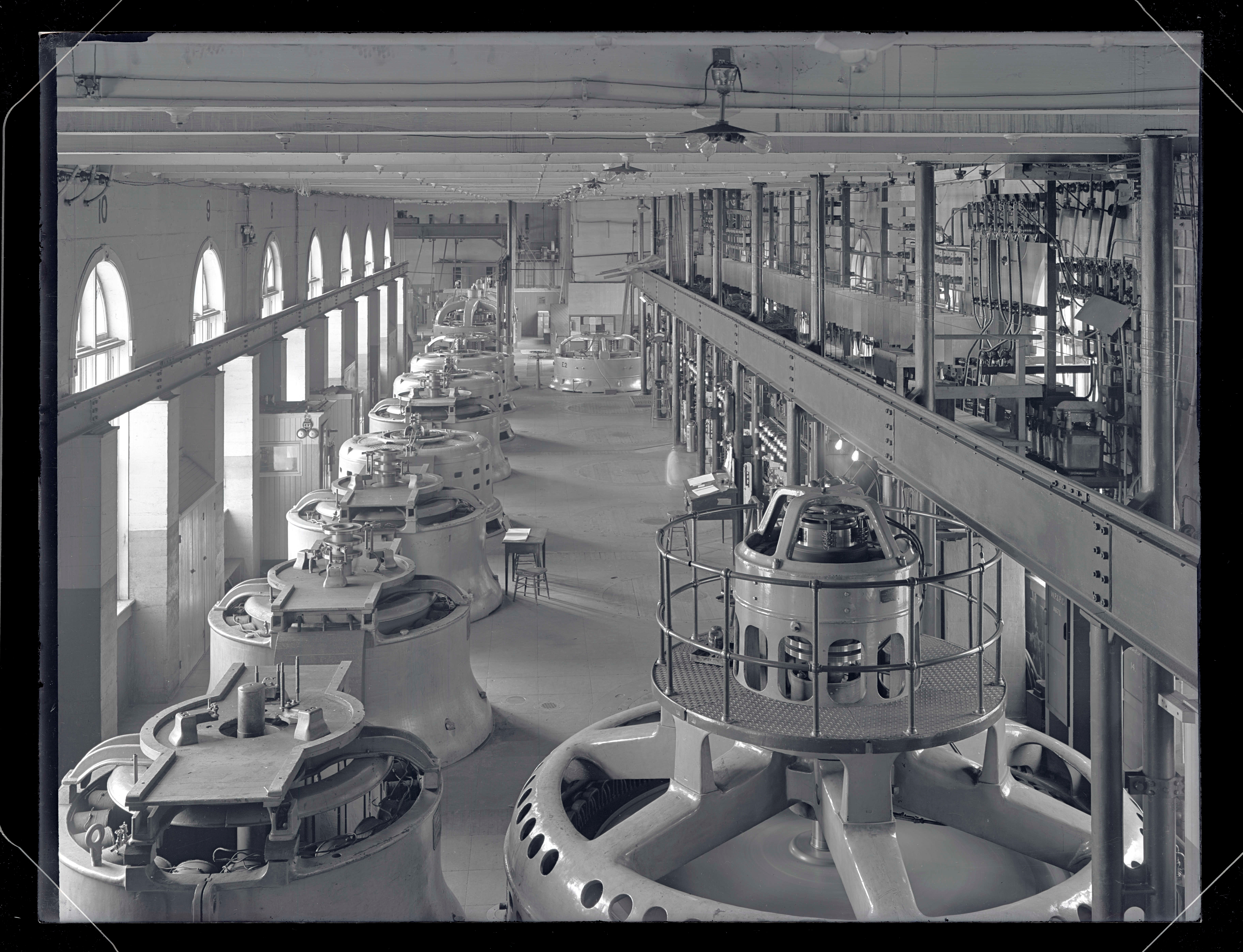 PGE Portland General Electric glass plate photo dame powerhouse Sullivan generatiors allis chalmers allis-chalmers